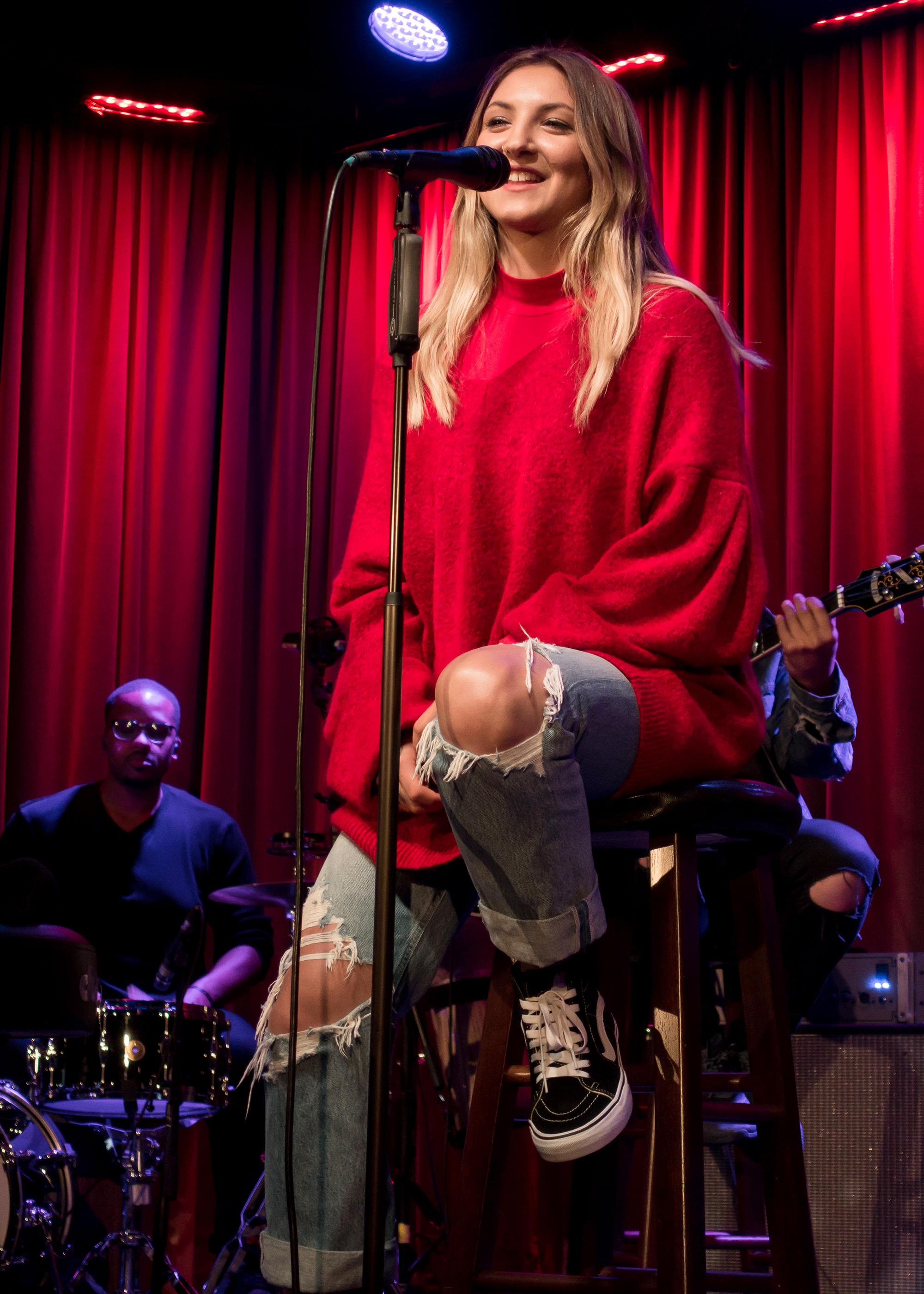 Julia Michaels interview and performance live at the Grammy Museum in downtown Los Angeles, California, on Thursday, November 2, 2017.